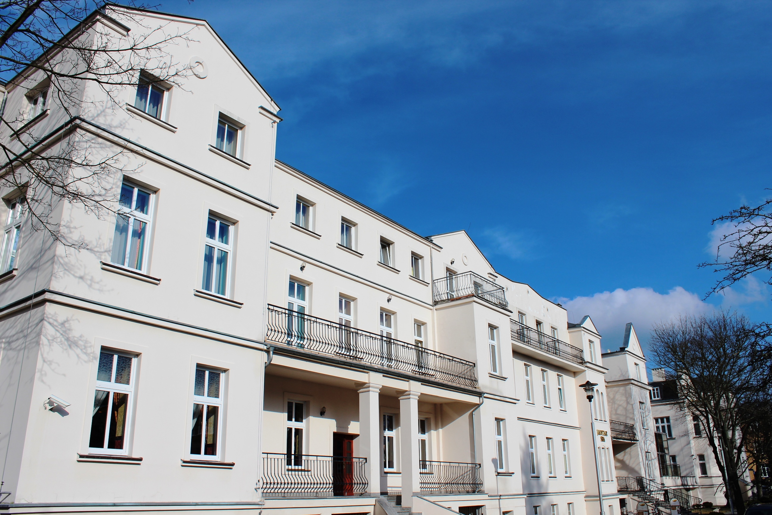 Jantar Spa Sanatorium in Kołobrzeg